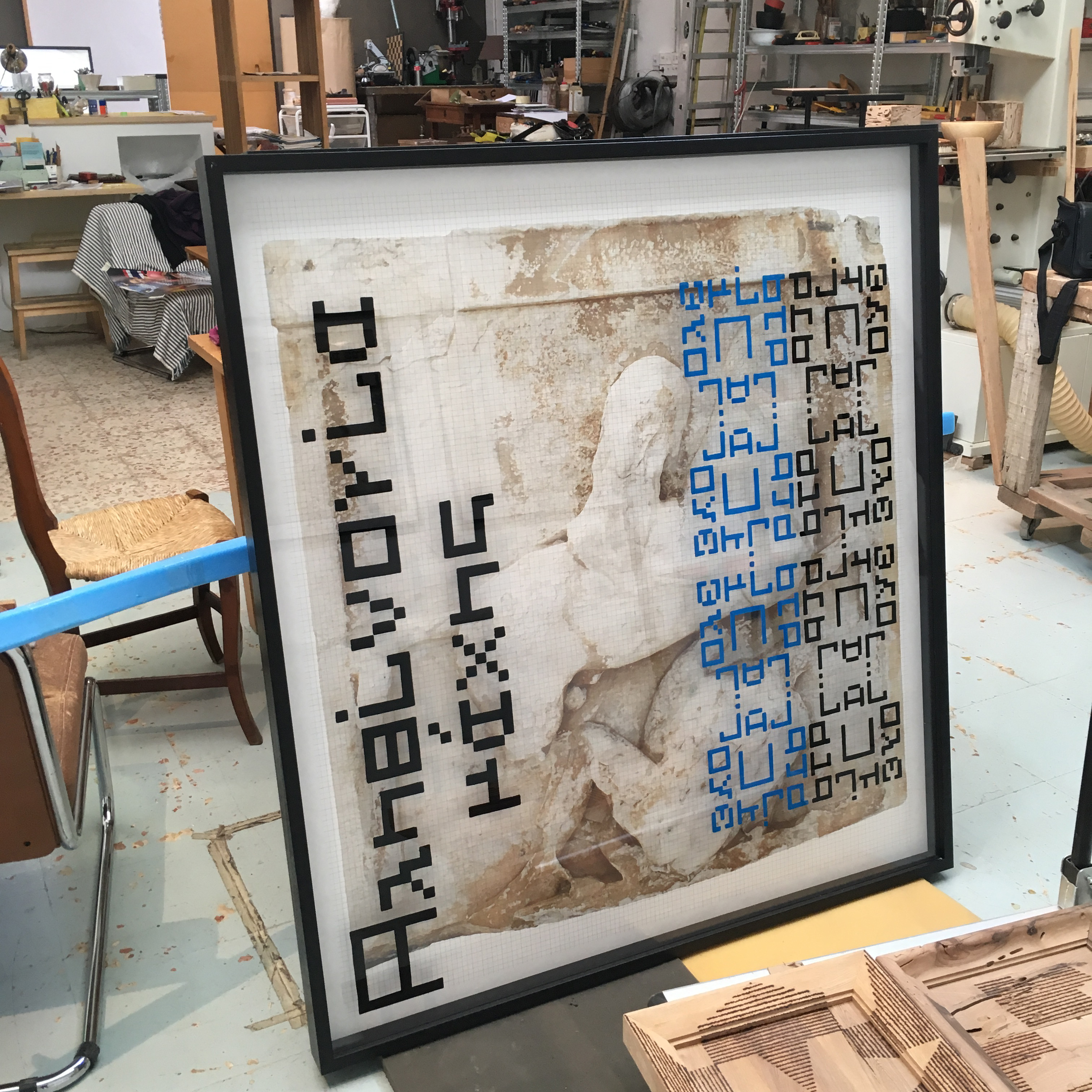 One of the Amazonomaquia 1.1 in the studio of Clara Carvajal.